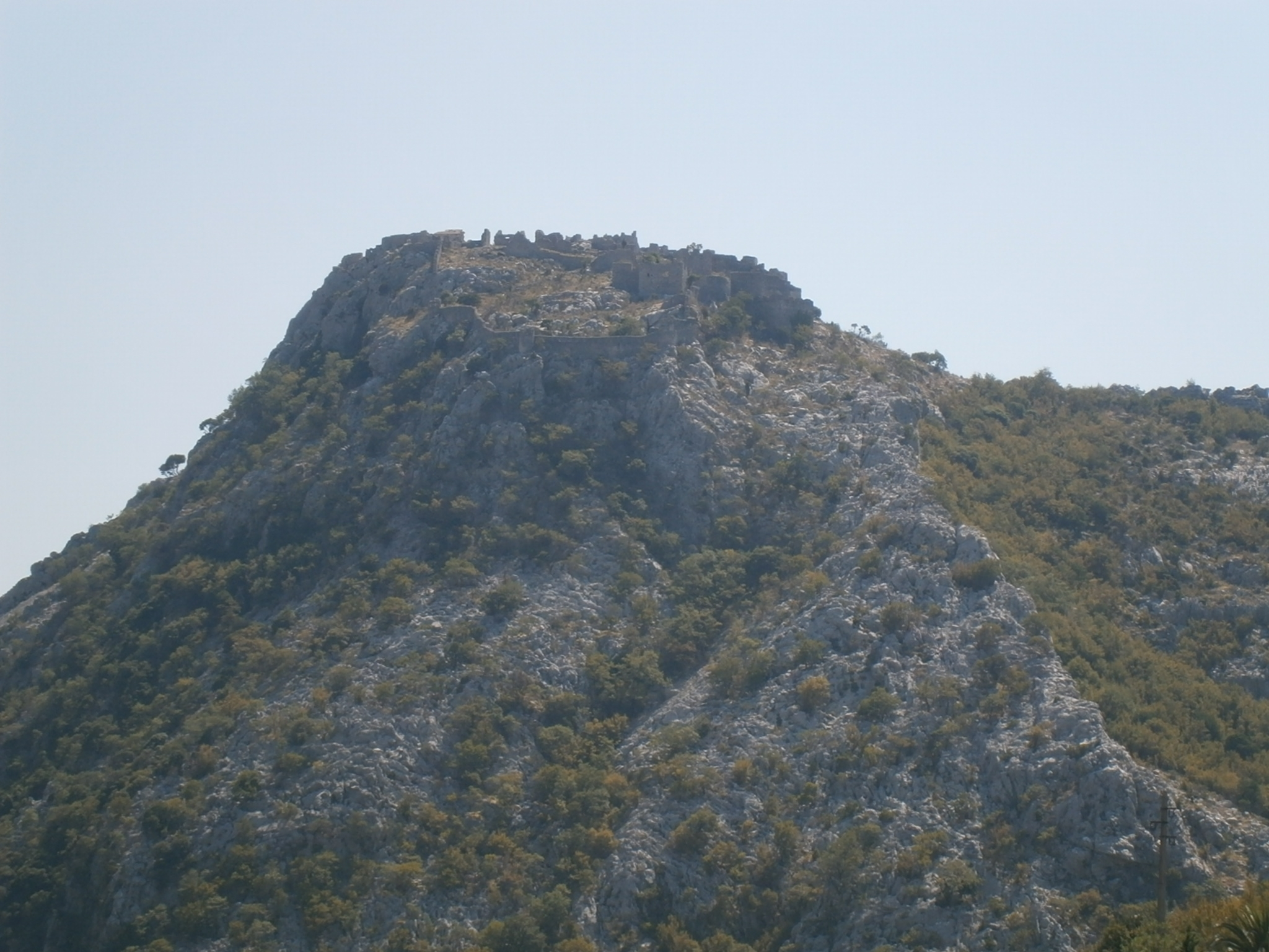 Haj Nehaj castle near Sutomore, Montenegro